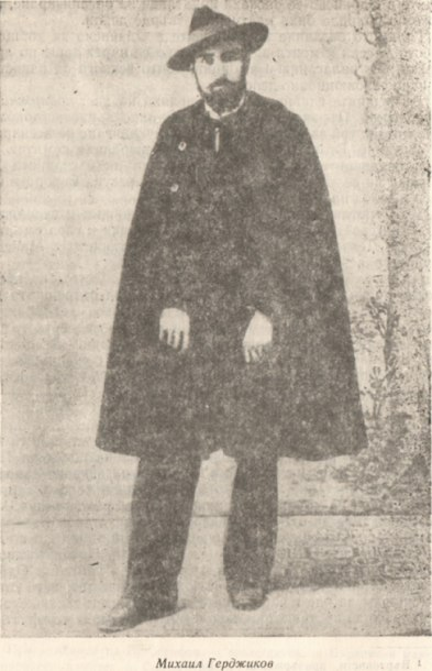 Portrait of the IMARO leader Mihail Gerdzhikov.